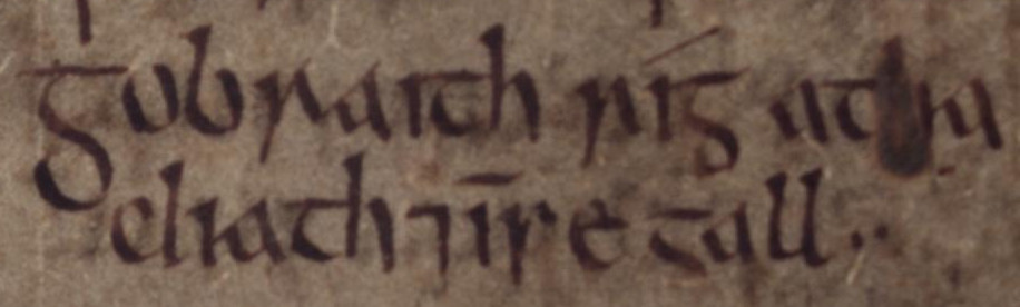 An excerpt from folio 30v of Bodleian Library MS. Rawl. B. 503 (the Annals of Inisfallen). The excerpt reads in Gaelic "Gobraith, ríg Atha Cliath & Inse Gall" ("Gofraid, king of Áth Cliath and Insi Gall"). The man referred to is Gofraid Crobán, King of Dublin and the Isles (died 1095).